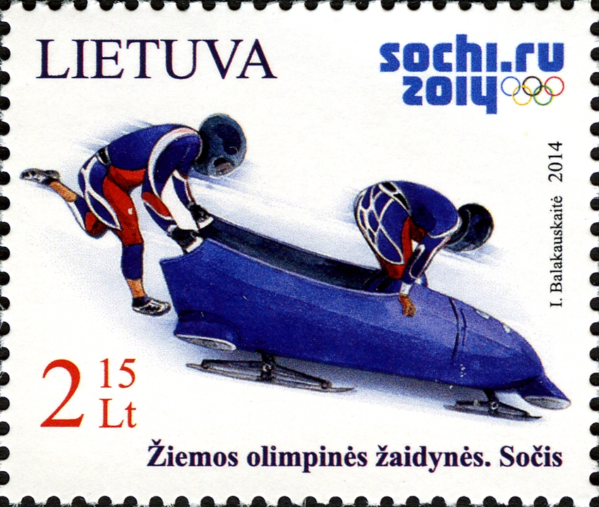 Stamps of Lithuania, 2014